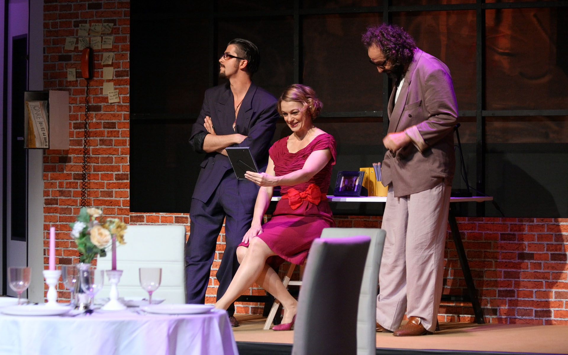 Elke Winkens, Otto Jaus and Reinhold G. Moritz in Ein ungleiches Paar, an adaption of Neil Simons play The Odd Couple. Summer theater festival at the city theater of Berndorf (Lower Austria).